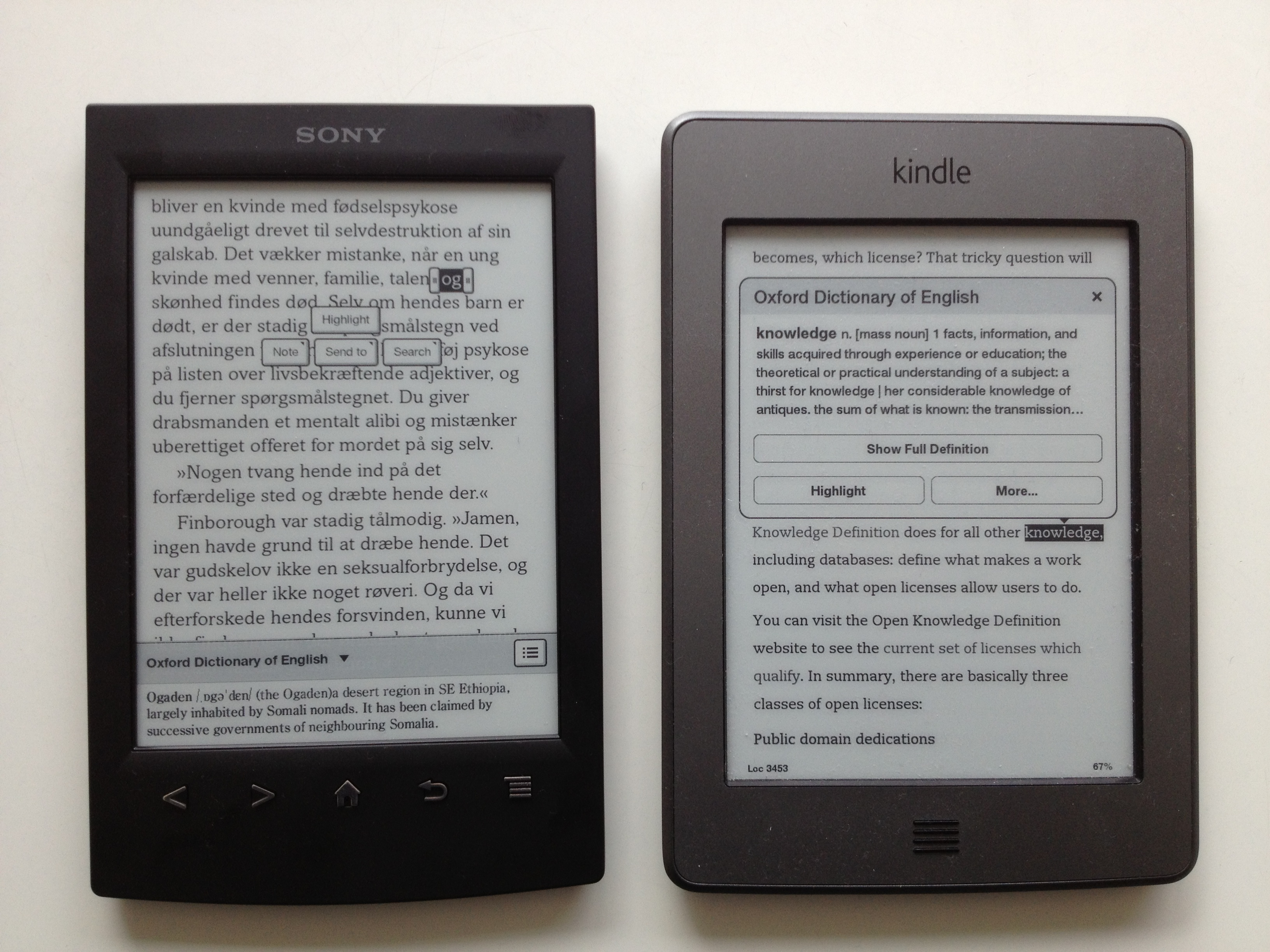 Sony PRS-T2 vs Amazon Kindle Touch